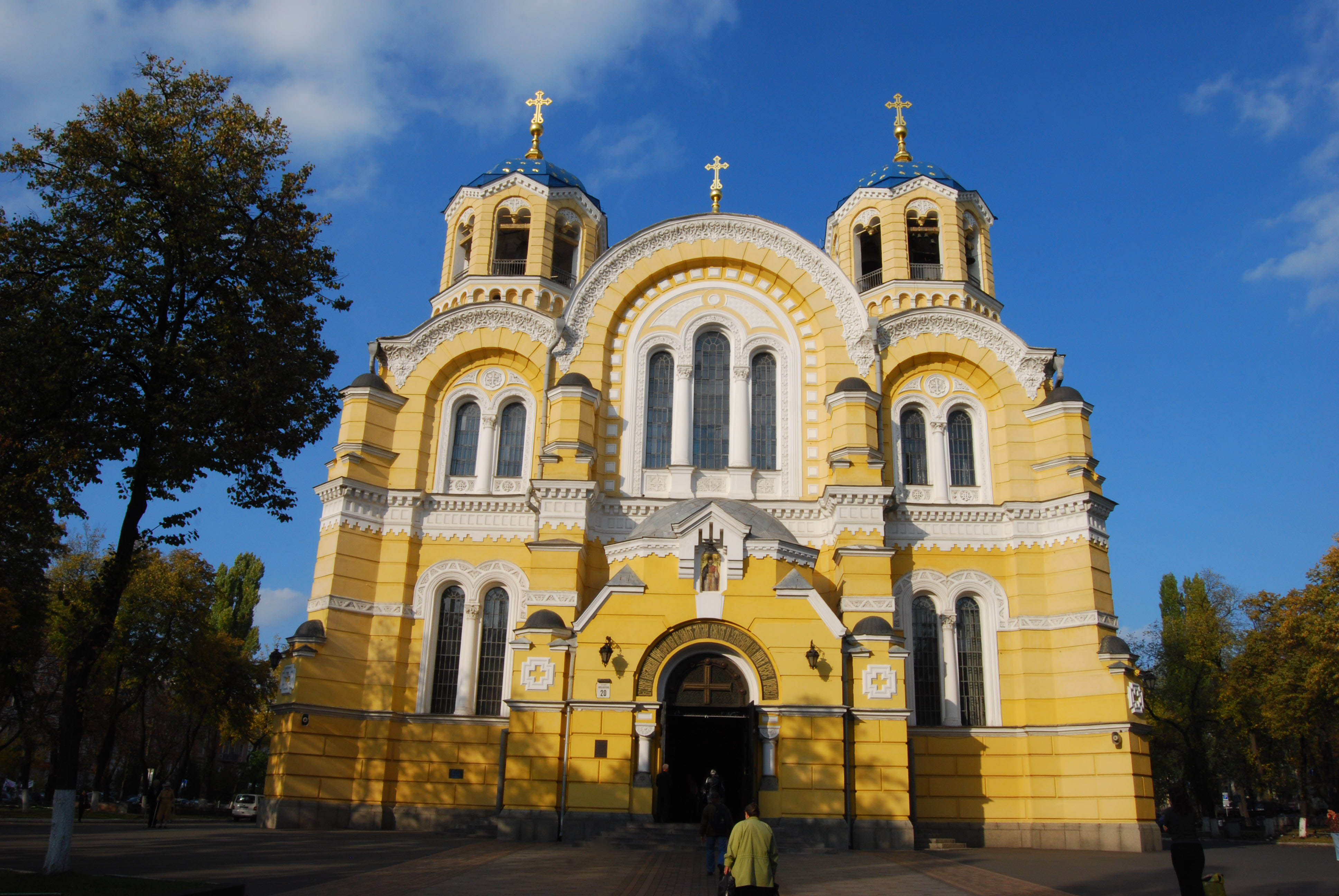 St Volodymyr's Cathedral in Kiev.